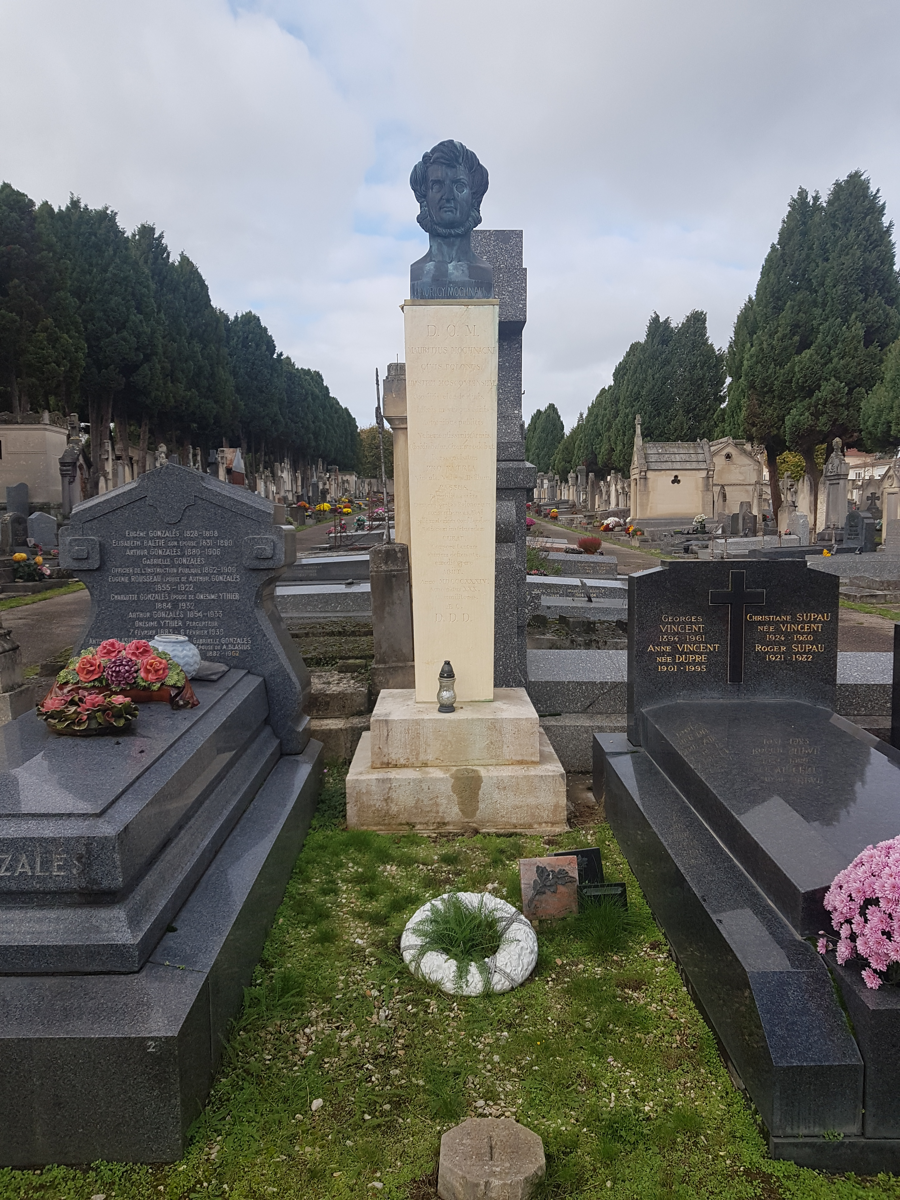 Mochnacki's grave in Auxerre